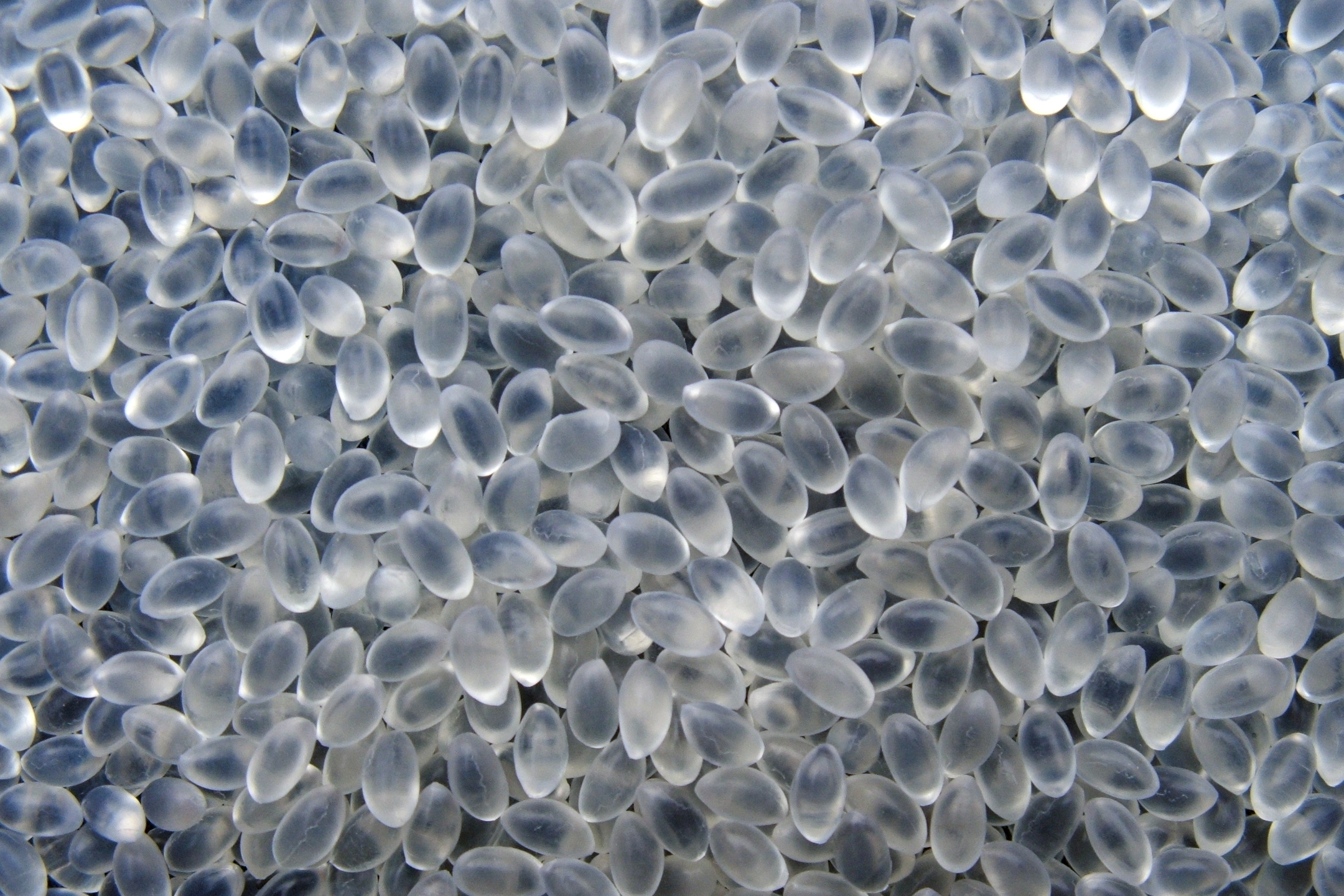 Chips of thermoplastic Urethane (TPU)